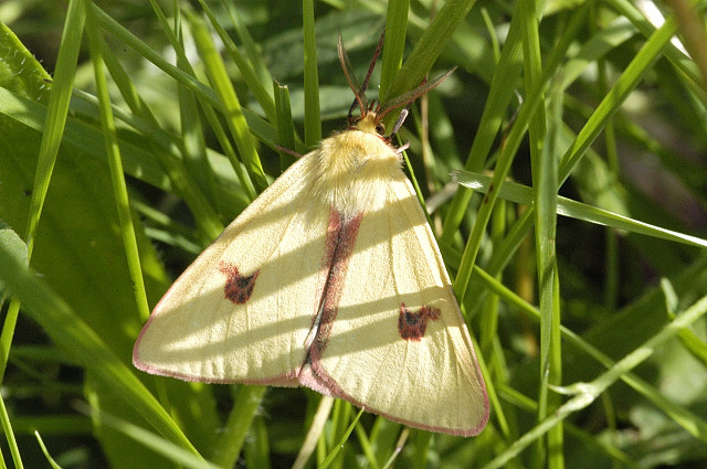 Picture taken in Commanster, Belgian High Ardennes . Species: Diacrisia sannio male